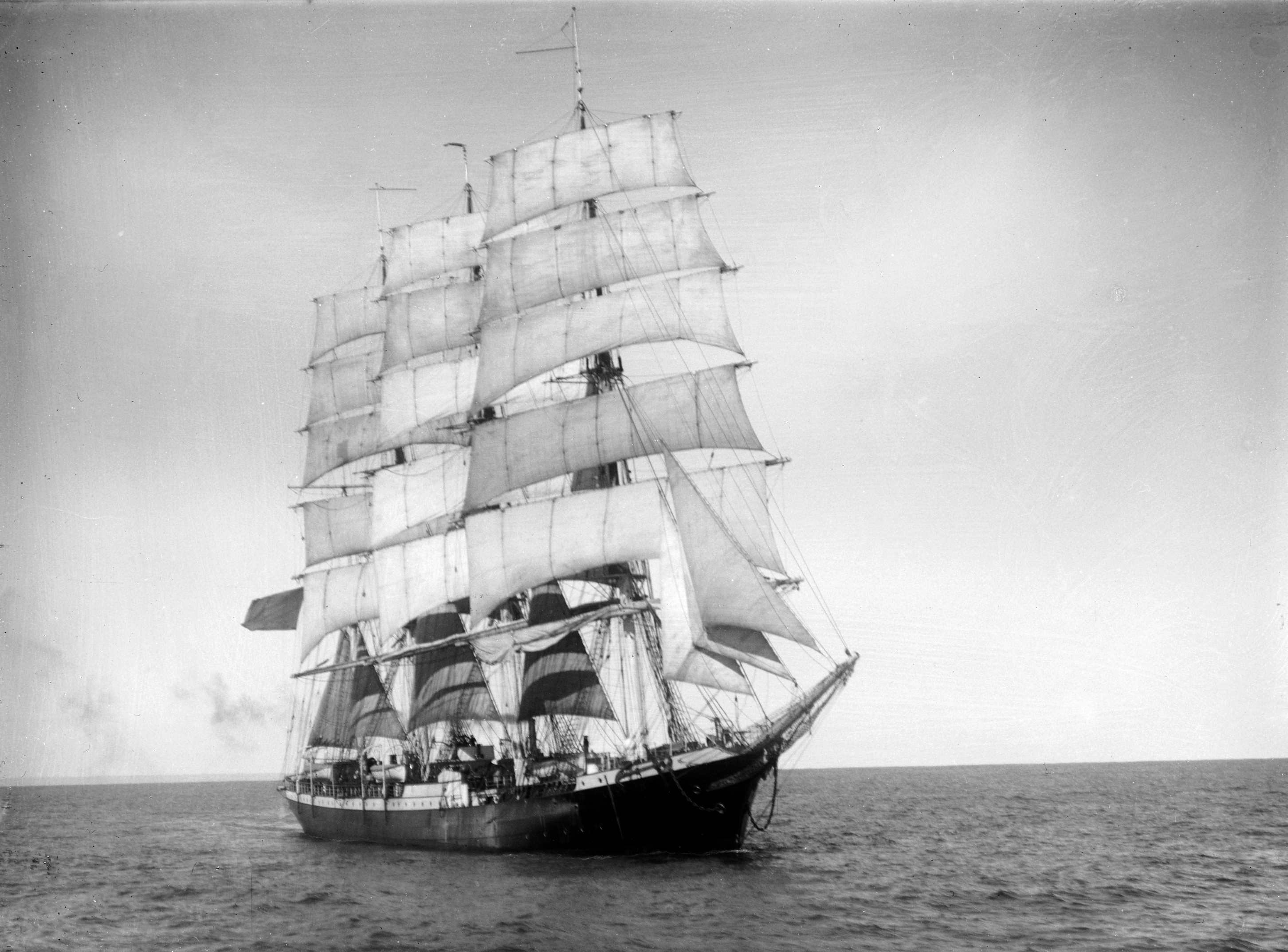 The four masted barque „L'Avenir“.